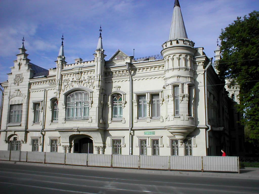 Shamil house in Old Tatar Sloboda of Kazan